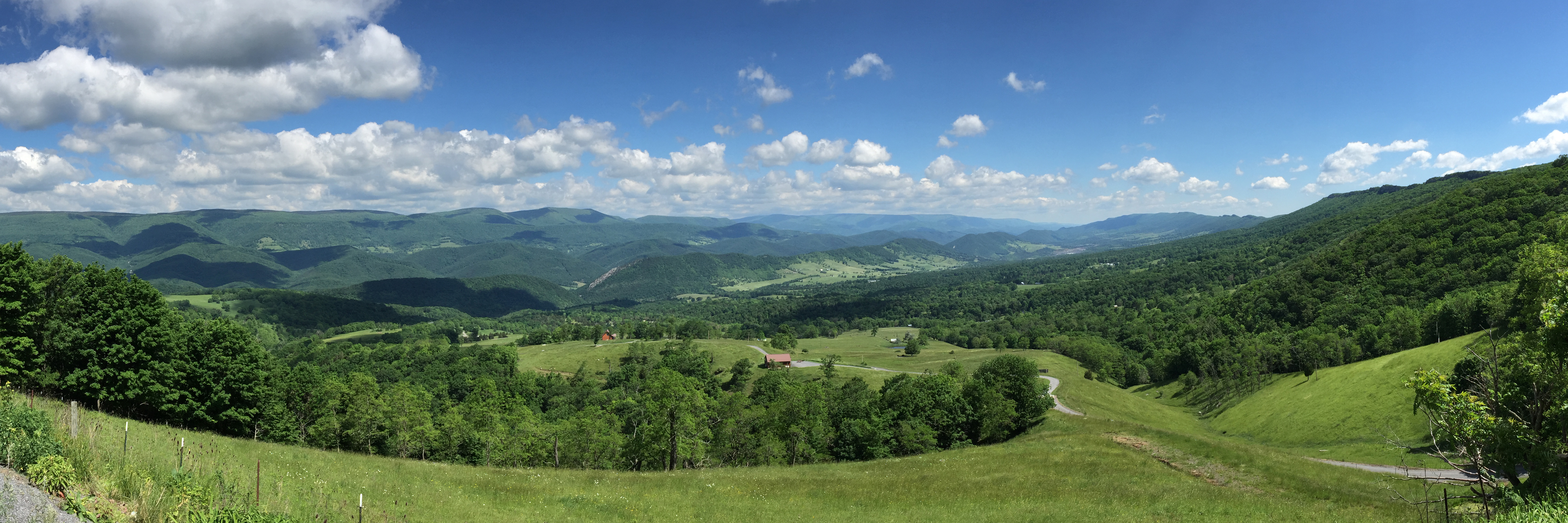 Panorama northwest, north and northeast from the Germany Valley Overlook on U.S. Route 33 (Mountaineer Drive) on the western slopes of North Fork Mountain near Monkeytown, Pendleton County, West Virginia